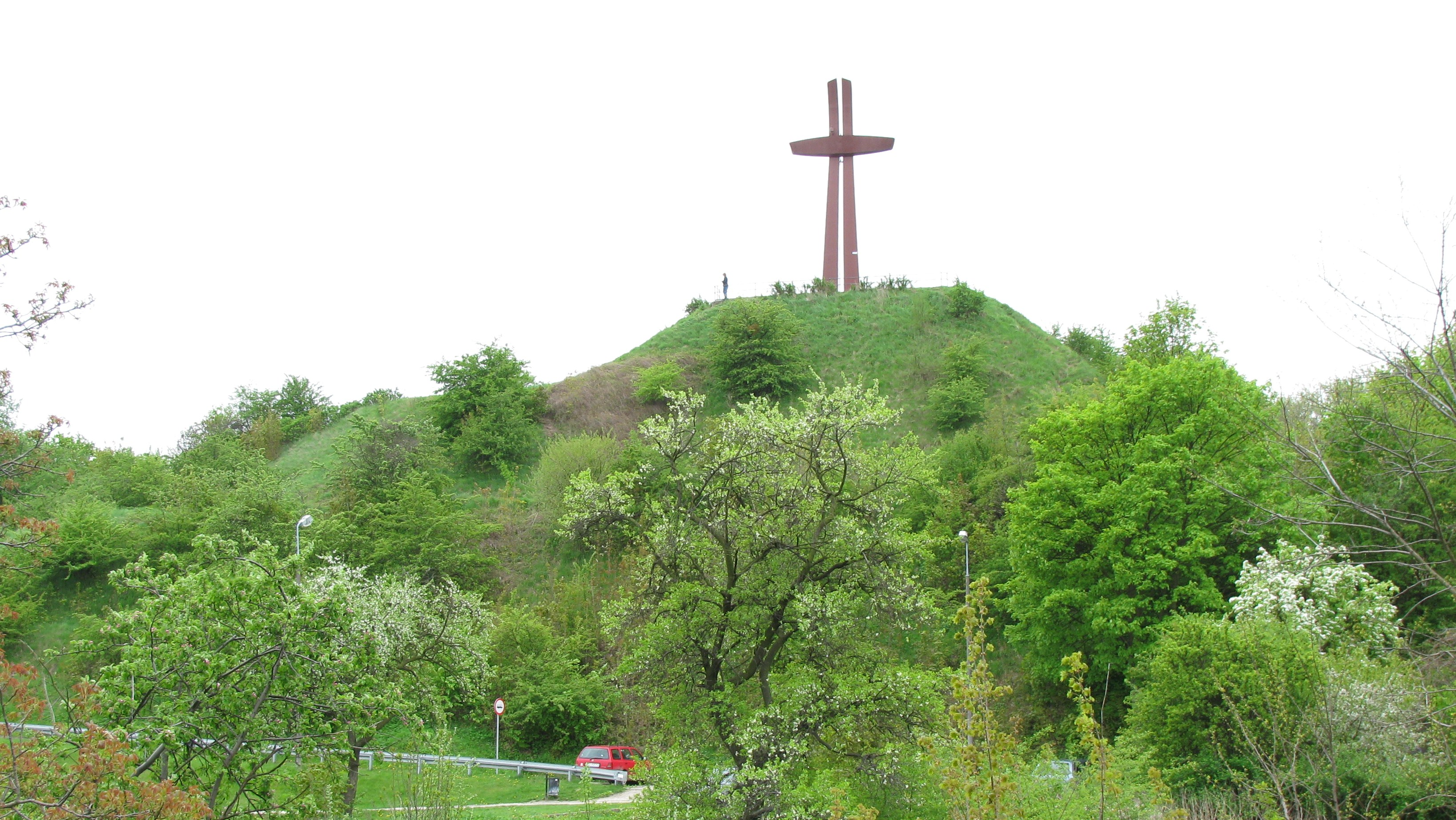 Gradowa mountain in Gdańsk (Poland).